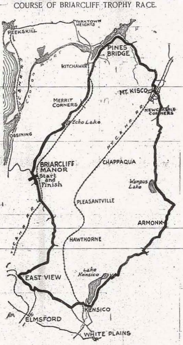 This is an image of the course of the Briarcliff trophy race.